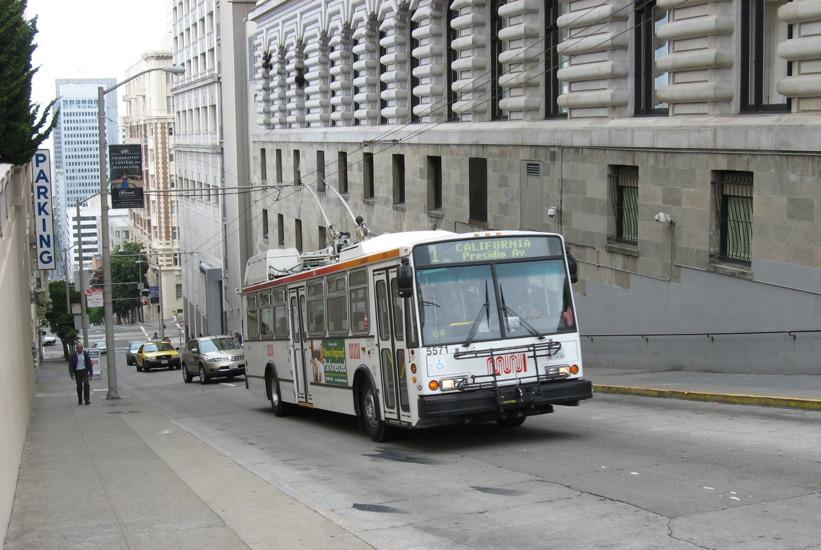 San Francisco Muni ETI 14TrSF trolleybus #5571 climbing a very steep section of Sacramento Street, between Powell and Mason streets (about 17%), westbound on route 1-California.